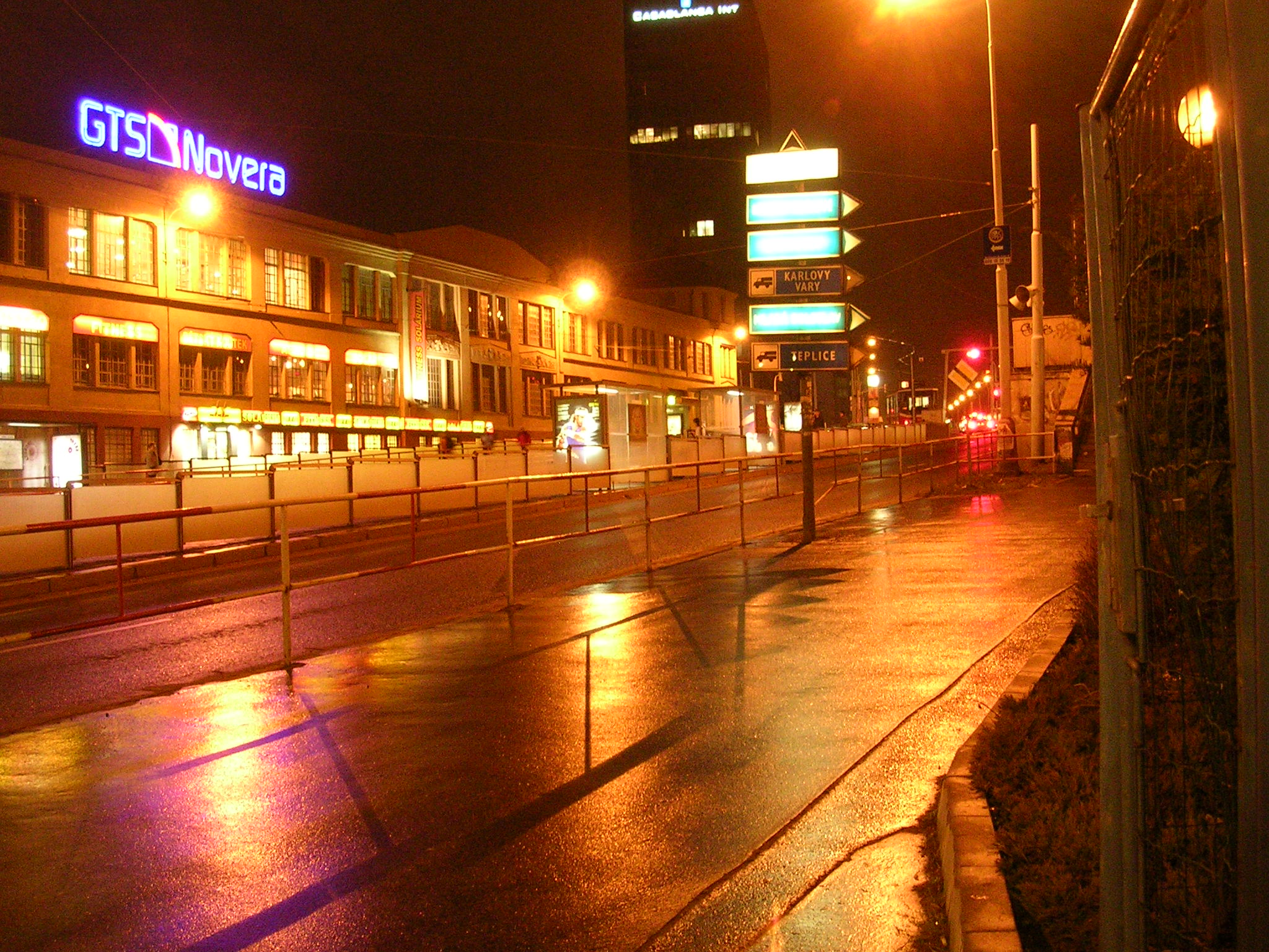 Vinohrady, Prague, the Czech Republic. Vinohradská Street, tram stop Želivského.